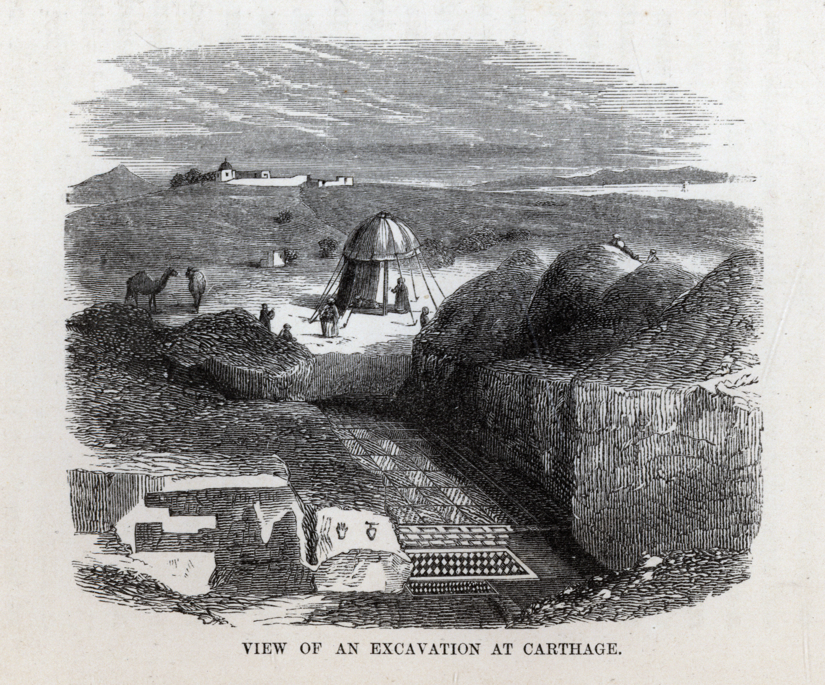 Excavations at Carthage around 1860